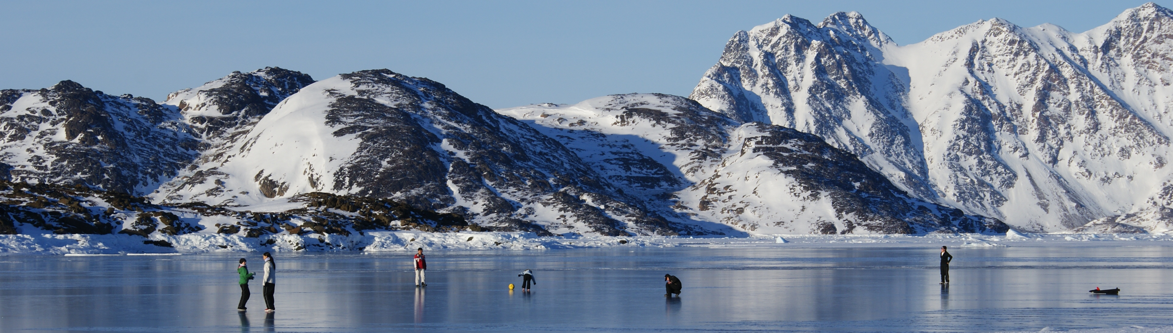 Kulusuk, Greenland. Saturday idyll: children playing ball on the ice, several hundred meters offshore on the surface of the frozen Torsuut Tunoq sound.